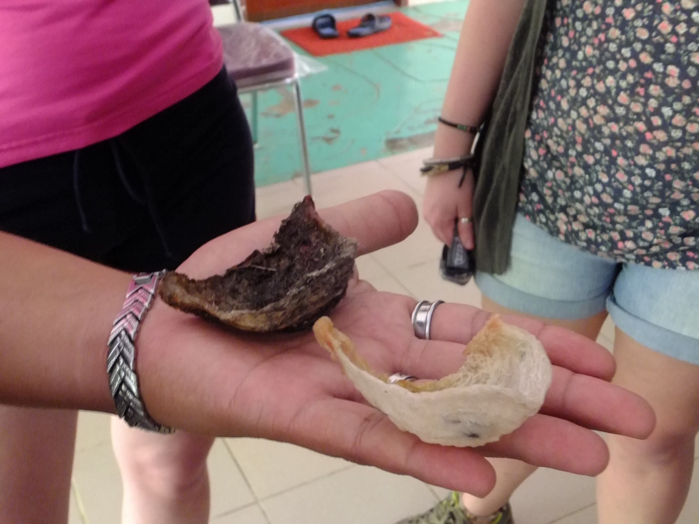 Birds nests used for birds nest soup. The white one is much more valuable as it contains less bird 'debris'